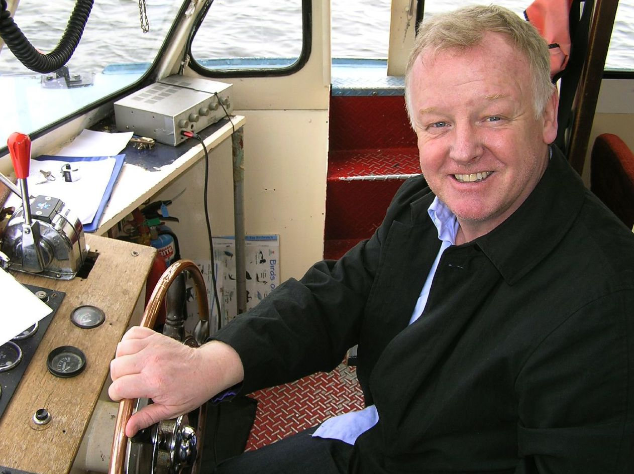 Les Dennis at the helm of a launch on Cardiff Bay